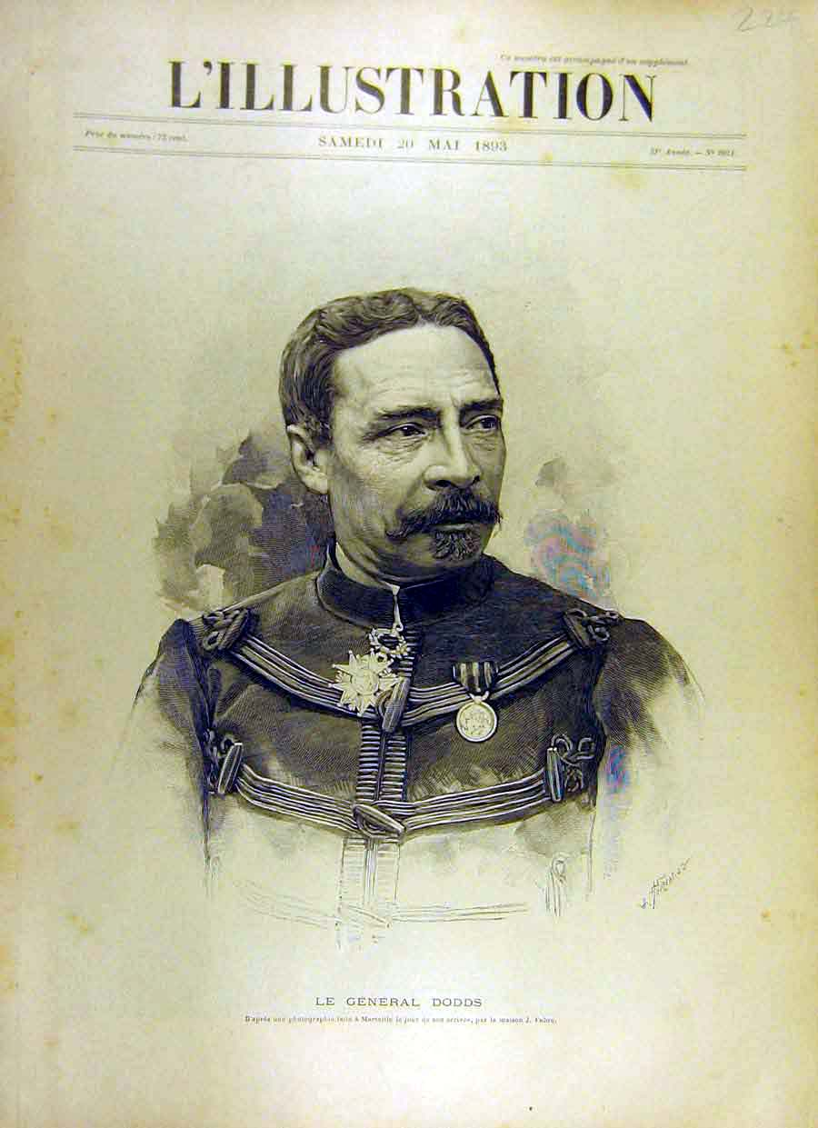 Alfred-Amédée Dodds on the cover of L'Illustration.